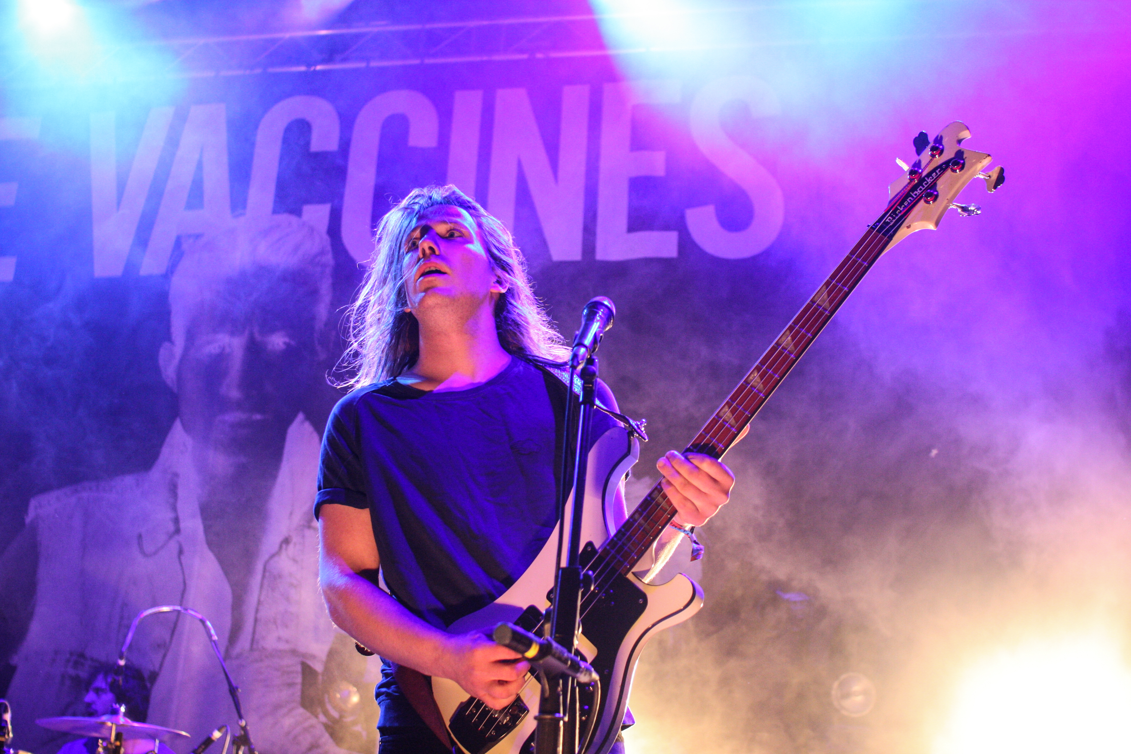 Festivalsommer This photo was created with the support of donations to Wikimedia Deutschland in the context of the CPB project "Festival Summer".